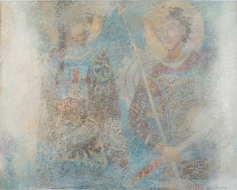 "Holy Warriors", painting, oil on canvas, 1998. Nevenka Rajković (1949-2005). Painter from Serbia.